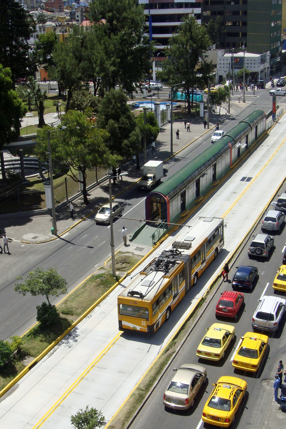 Quito's Trolleybus BRT system